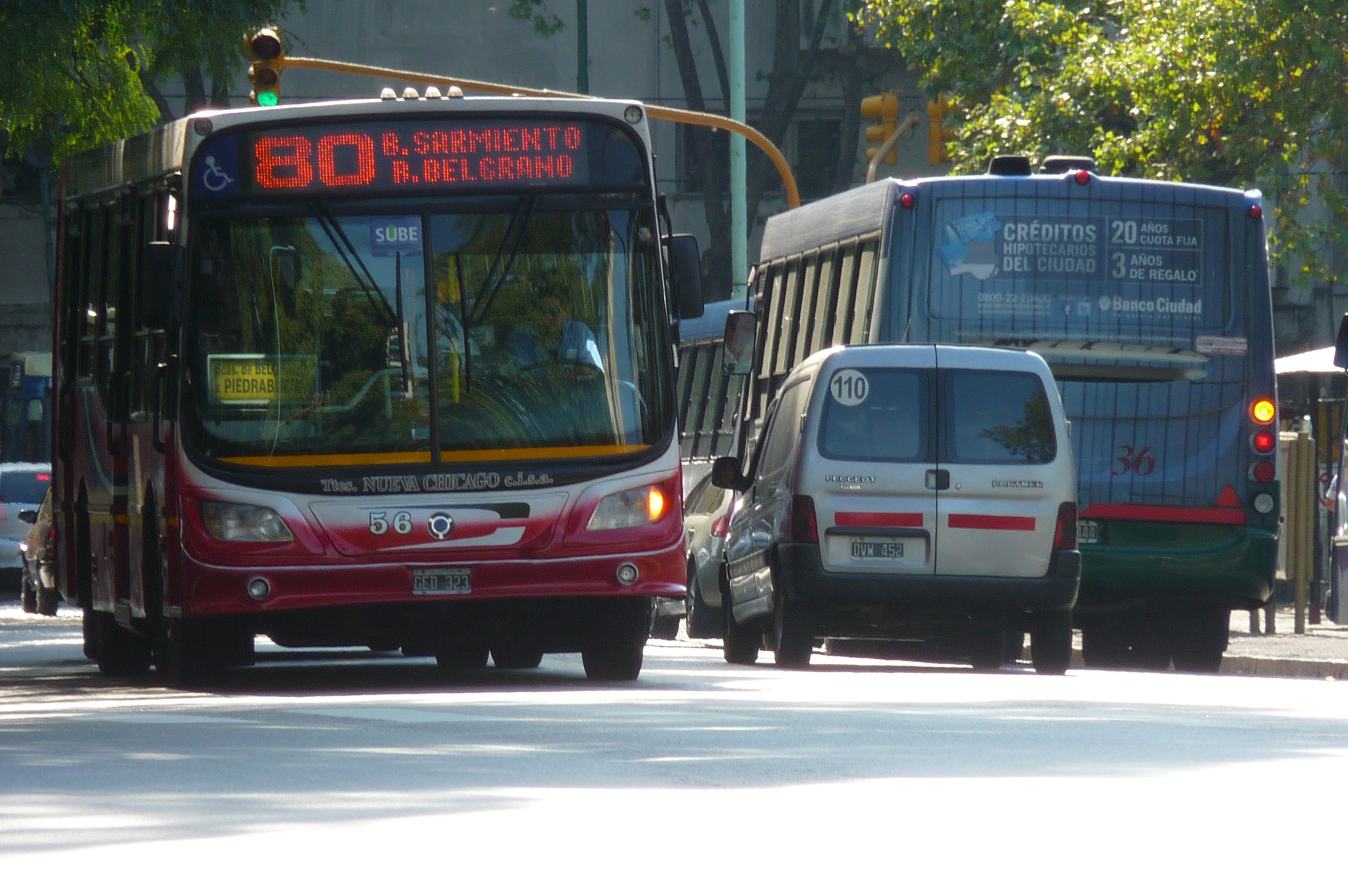 Italbus Tropea bus (reg. GED 323, #56) with unknown chassis in Buenos Aires, Argentina. Colectivo, line 80, Transportes Nueva Chicago C.I.S.A. operator.